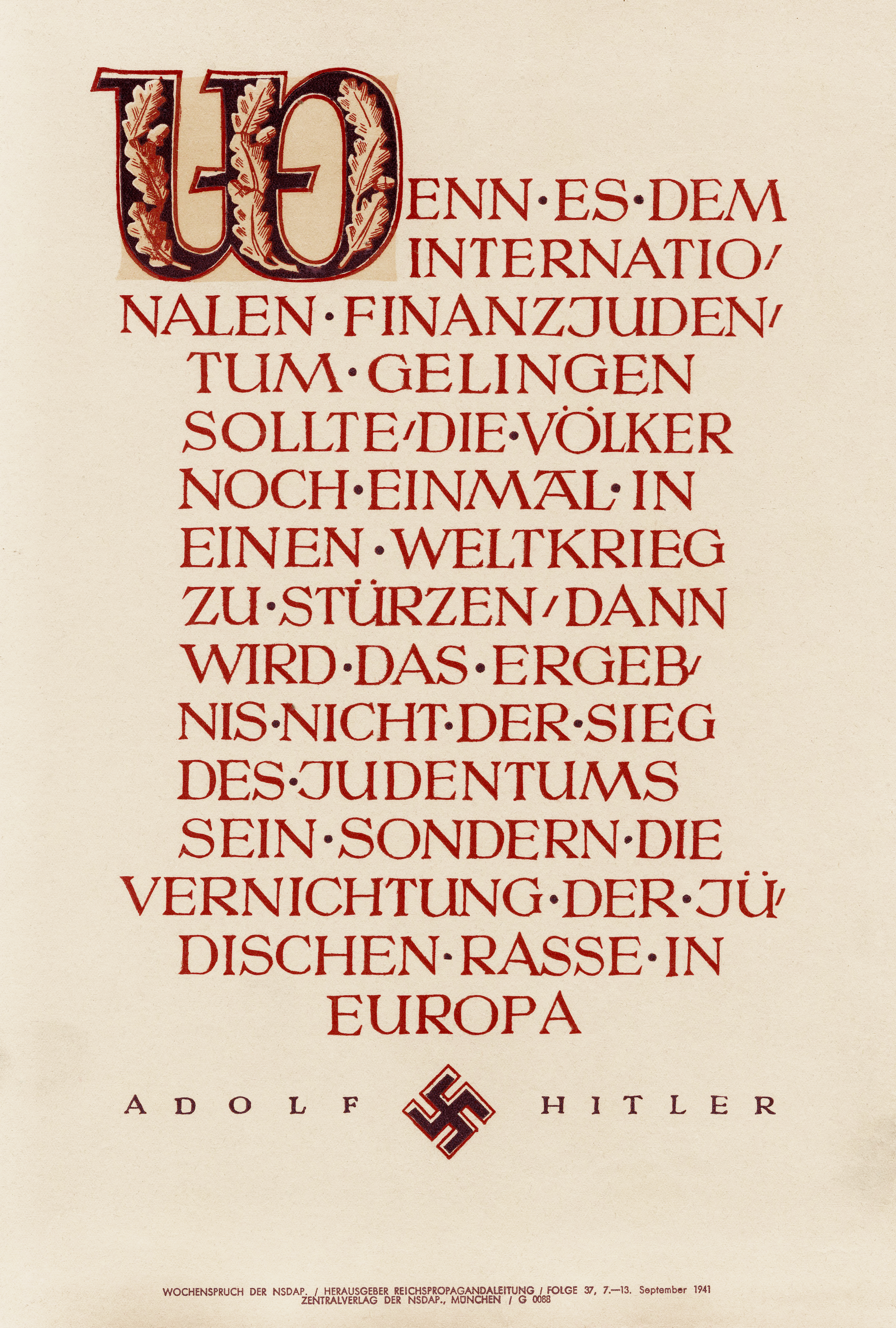 Wochenspruch der NSDAP #37, posted in local Nazi Party offices from 7–13 September. The poster has the prophecy quotation from Adolf Hitler, which he originally stated in the 30 January 1939 Reichstag speech. The quotation is translated, "If international finance Jewry inside and outside Europe should succeed in plunging the nations once more into a world war, the result will be not the Bolshevization of the earth and thereby the victory of Jewry, but the annihilation of the Jewish race in Europe." (Jeffrey Herf, The Jewish Enemy p. 52). The current version of the image is based on the highest resolution offered by the hclib scan, with enhancements by User:Buidhe to reverse aging and restore the original color.